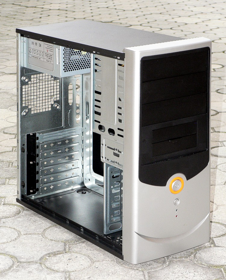 hardware case miditower